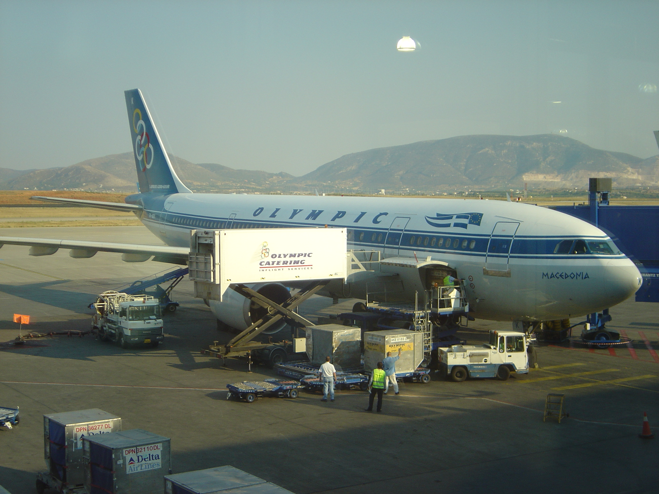 Olympic Airlines Airbus A300-600 being resupplied